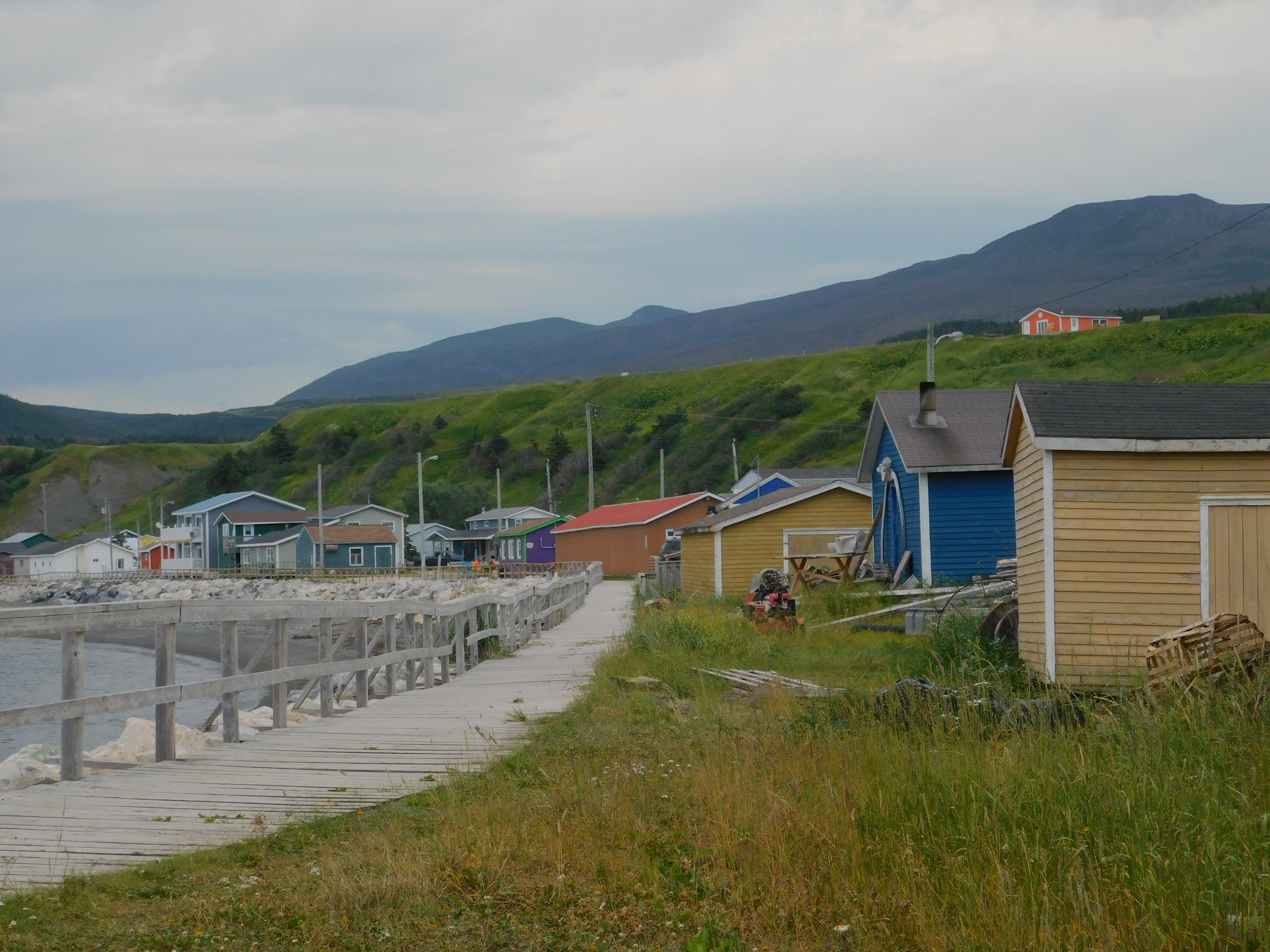 Waterfront homes and fishing sheds along the boardwalk of Trout River, a small community adjacent to Gros Morne National Park and the Tablelands UNESCO World Heritage Site.